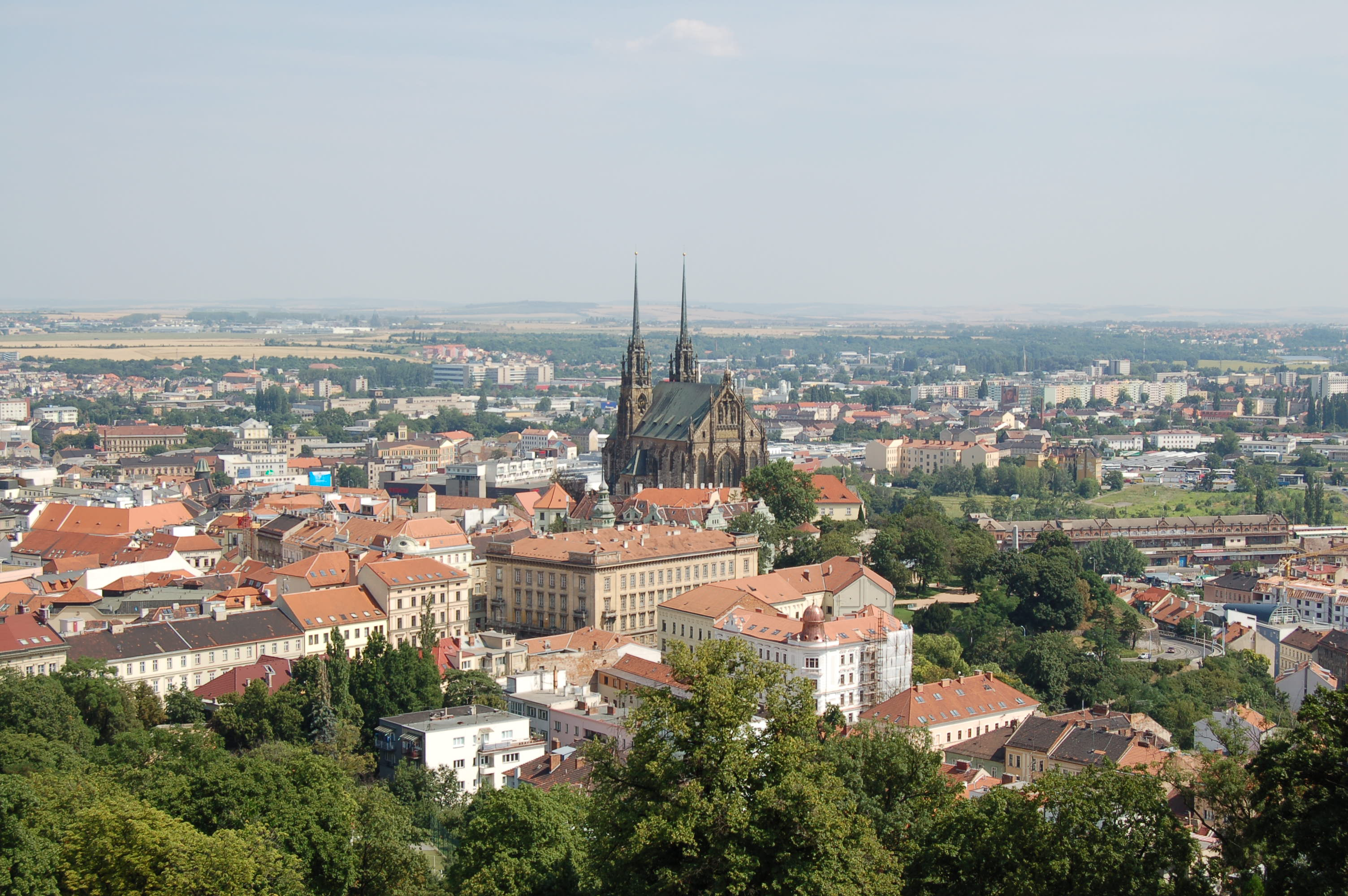 View on Brno from Spilberk Castle.